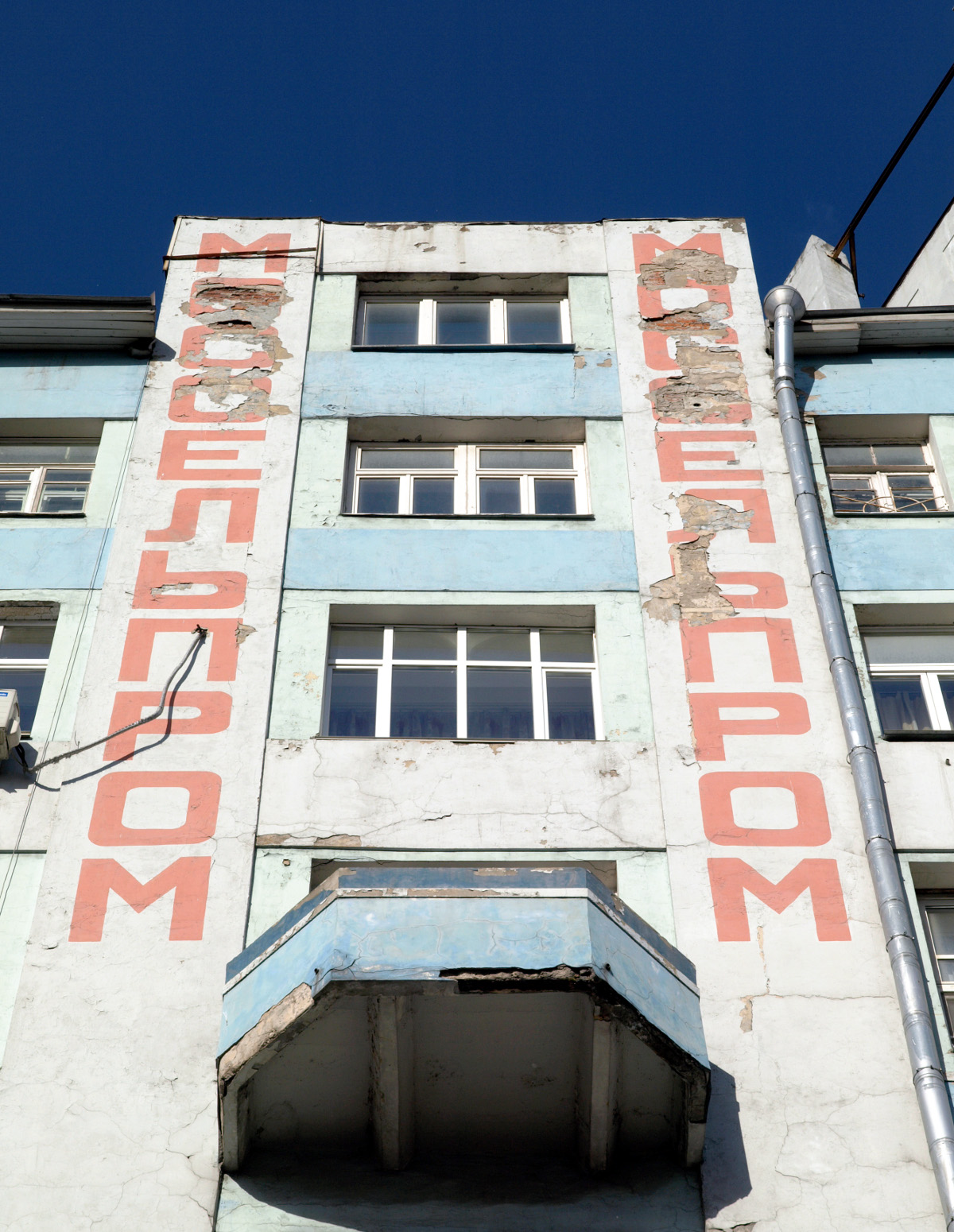 The Mosselprom Building, Moscow.